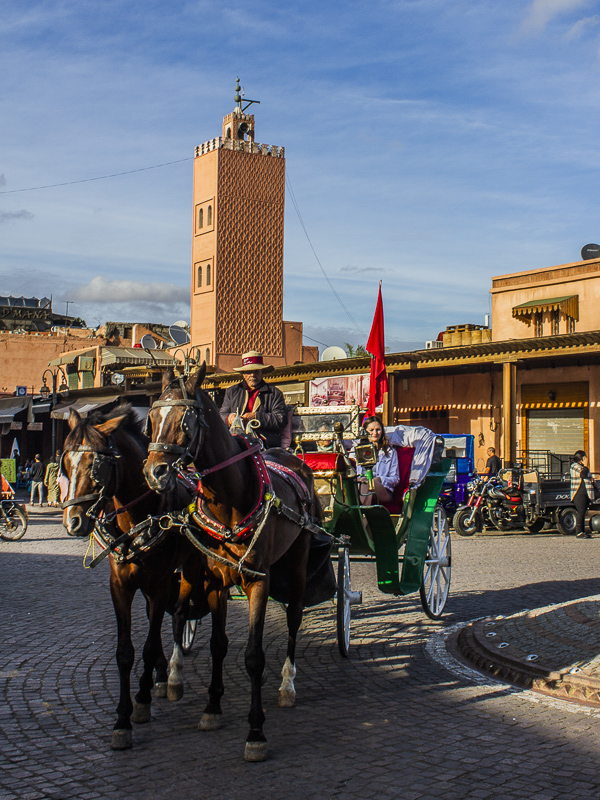 A horse-drawn carriage takes tourists to Jamaâ El Fna Square, in Marrakech, Morocco This is an image with the theme "Africa on the Move or Transport" from: Morocco